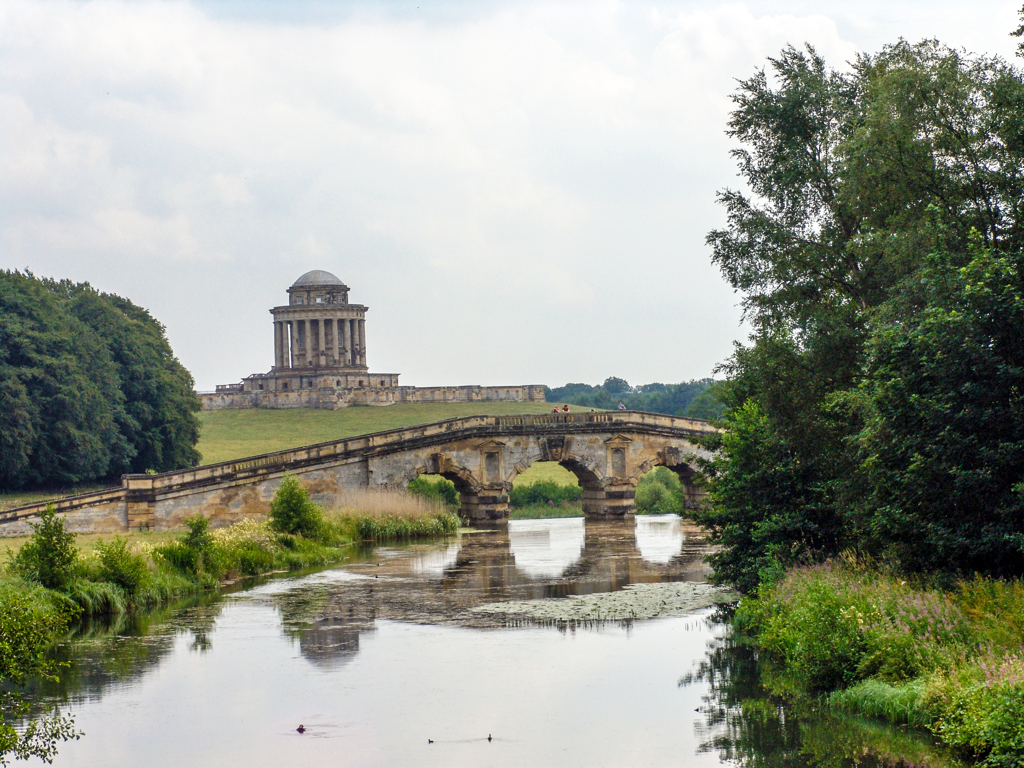 Castle Howard Mausoleum